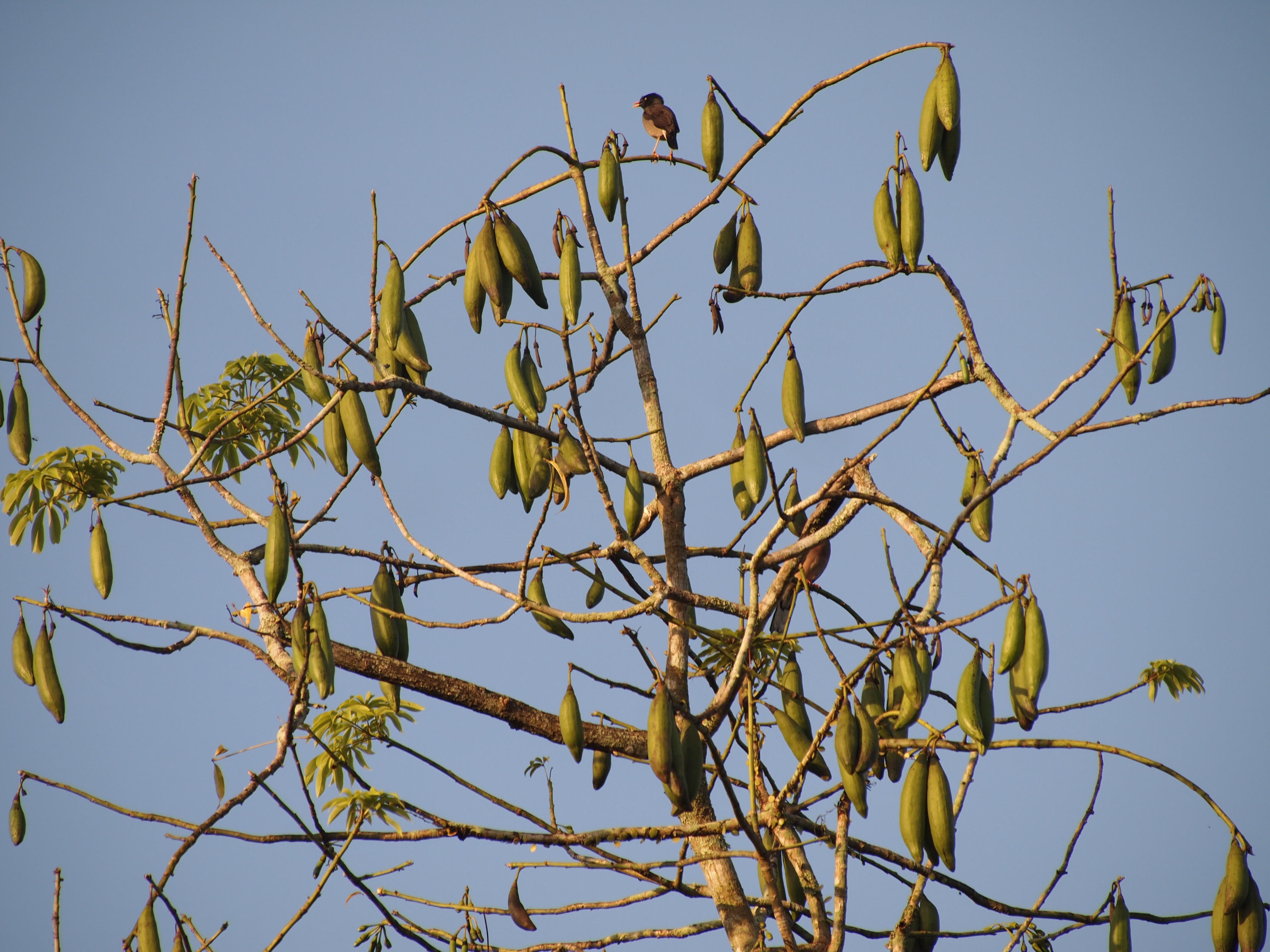 The fruits of Ceiba pentandra